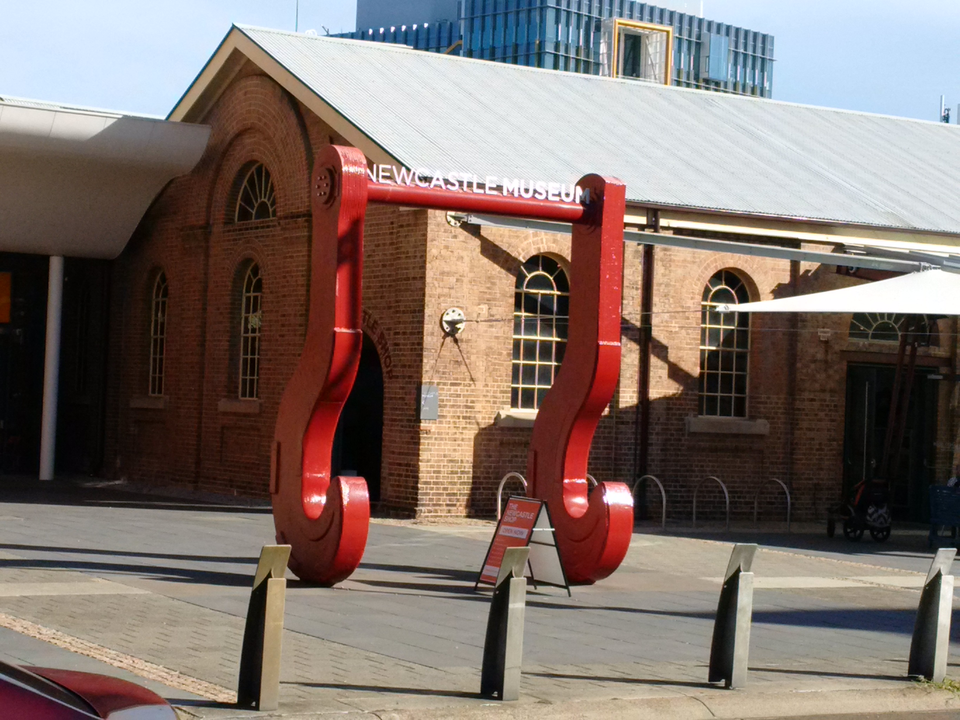 The entrance to the Newcastle museum in the City of Newcastle, NSW, Australia.